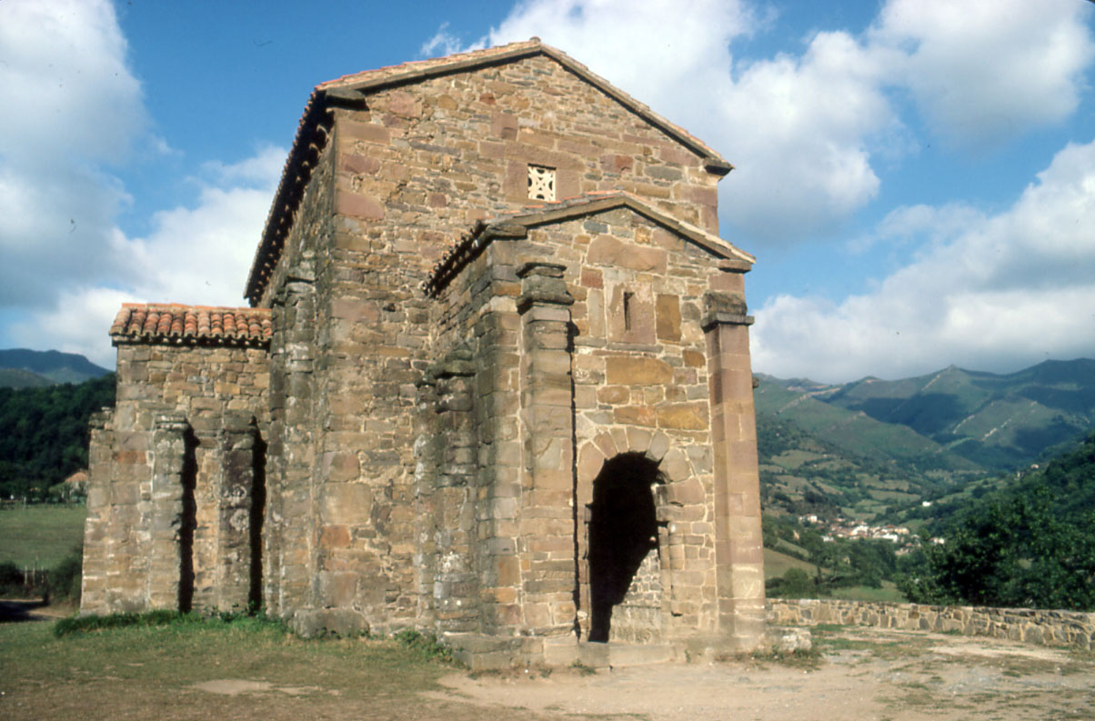 Church of St. Christine of Lena, Asturias (Spain) in 1982. Roman Catholic Asturian pre-Romanesque church.